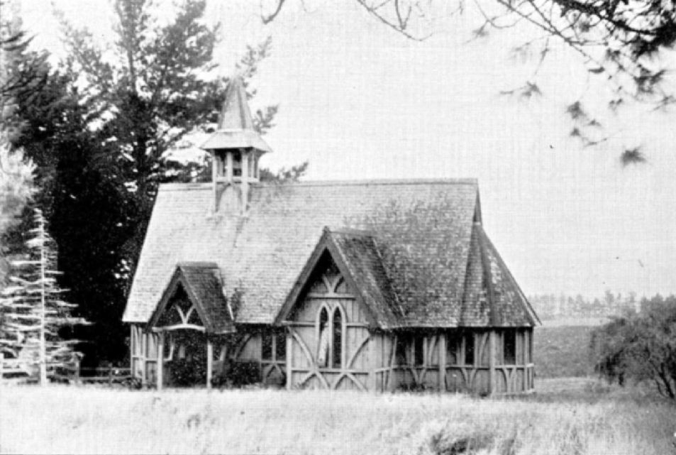 St. John's College Chapel from a book published in 1902.